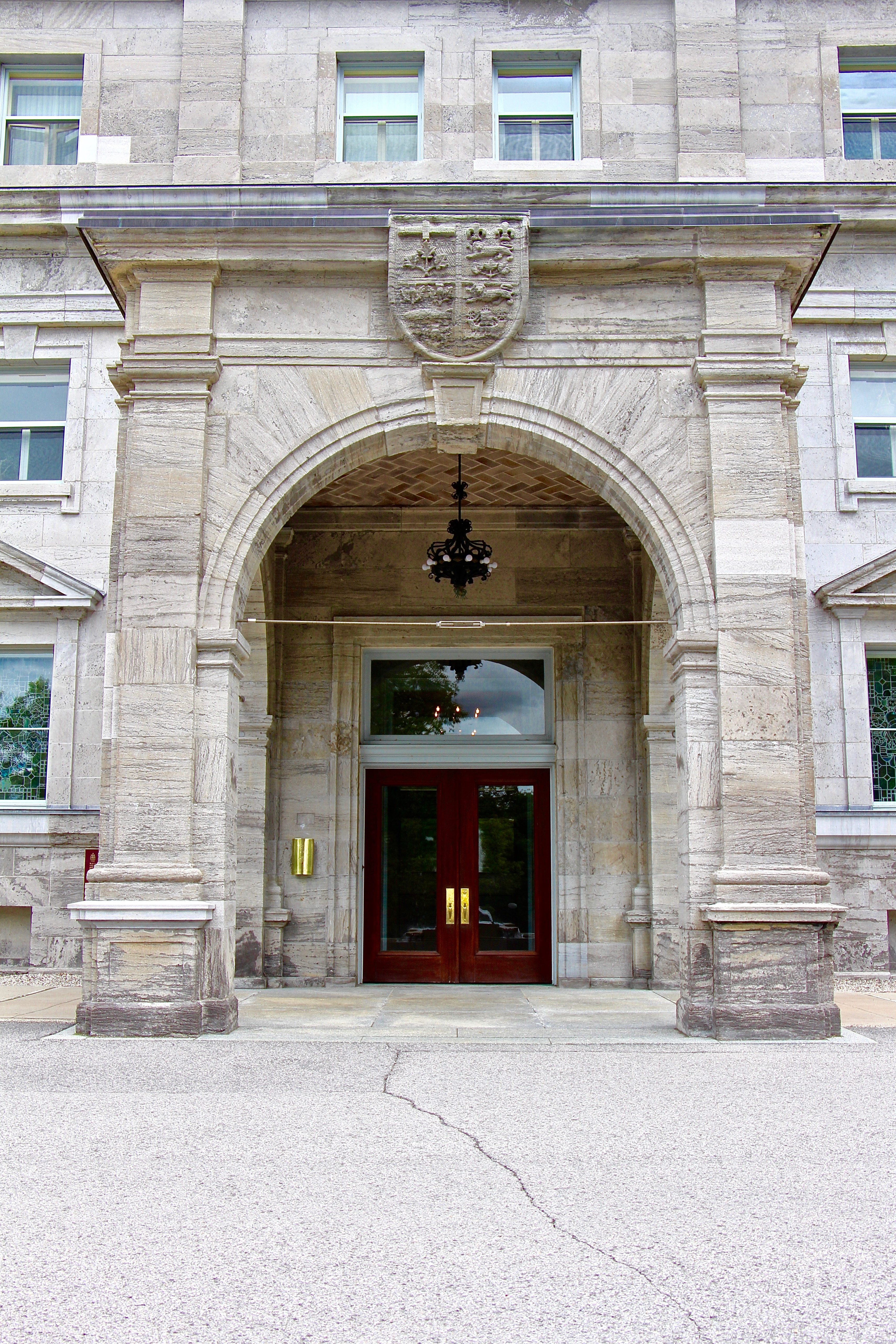 Rideau Hall, 1 Sussex Drive, Ottawa, ON K1A 0A1.